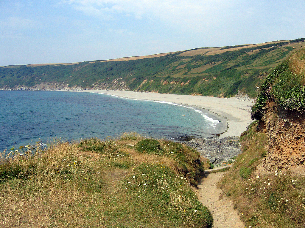 Vault Beach near Gorran Haven The pathway leading down to Vault Beach, south west of the village of Gorran Haven.